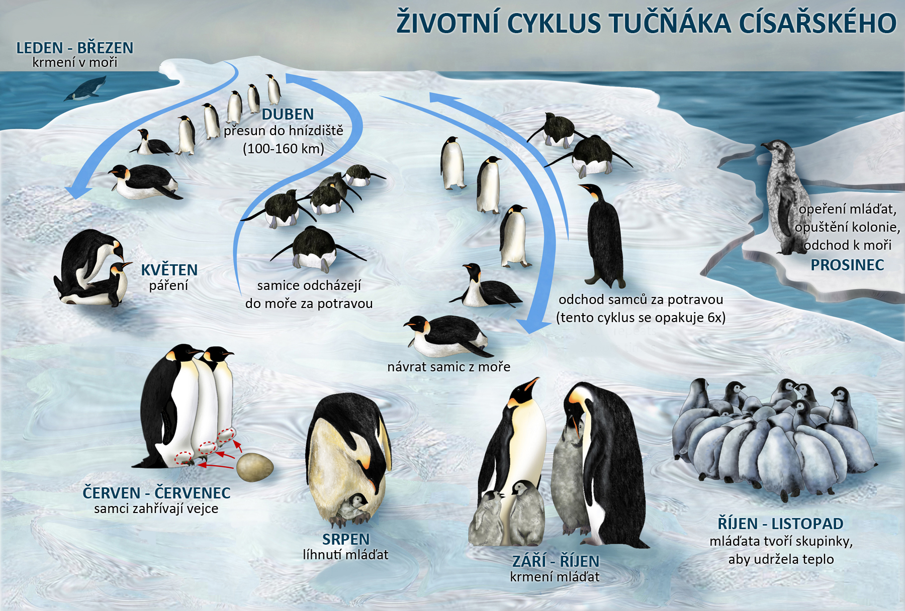 Lifecycle of the Emperor Penguin